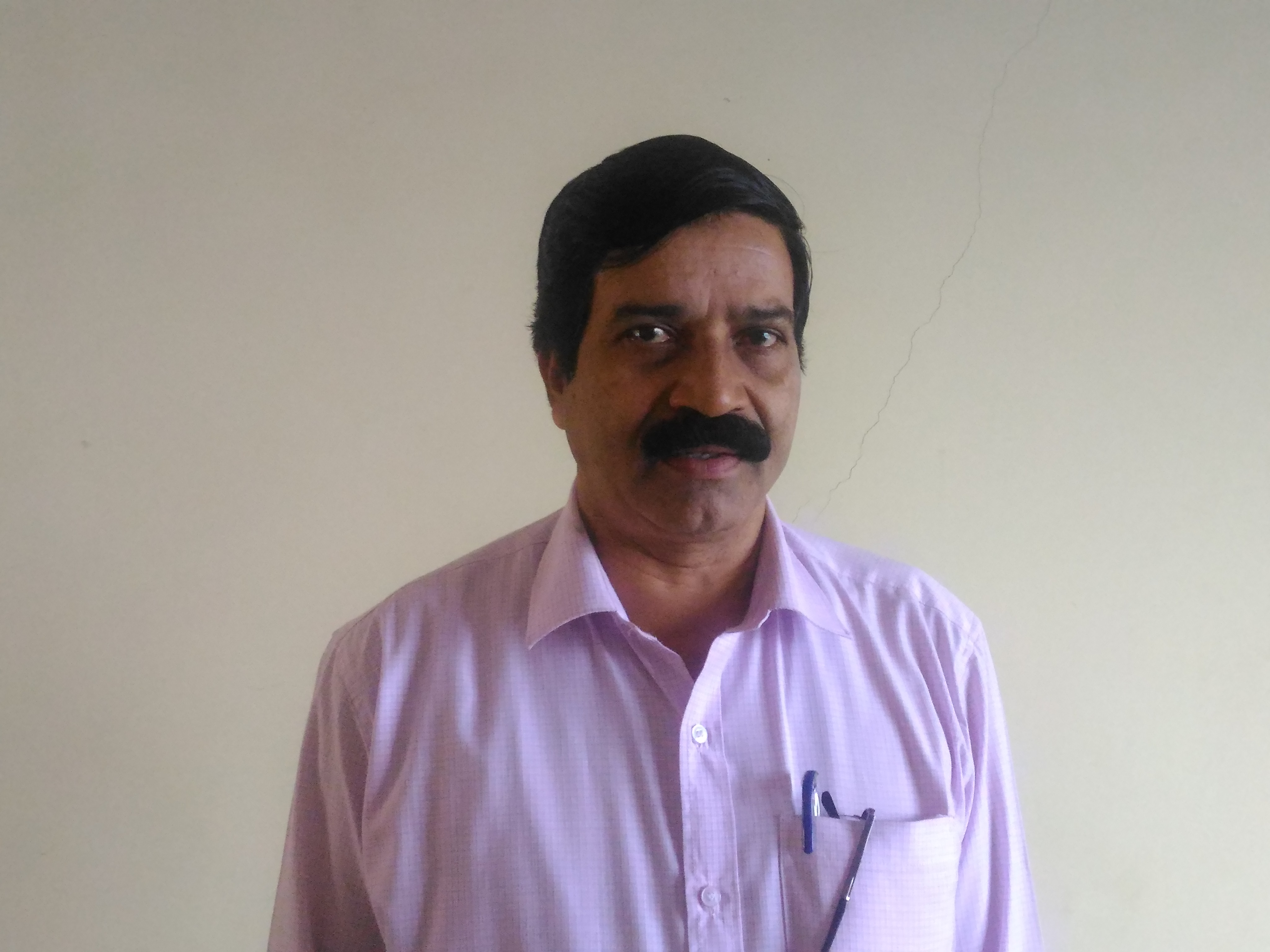 Tulu writer puvappa kaniyuru